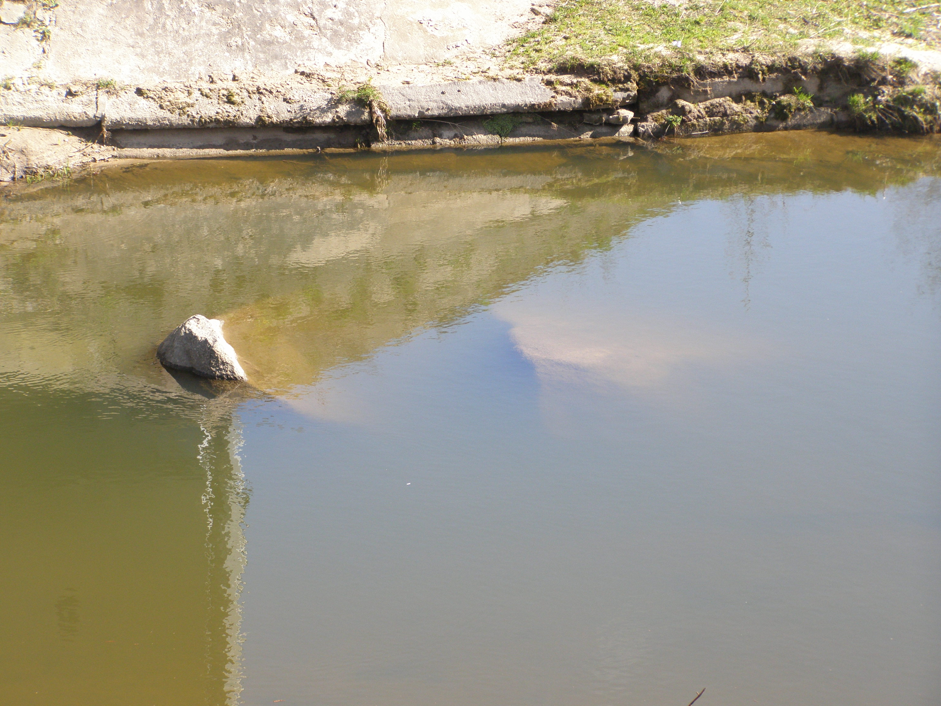 Salantai, Kretinga district, LithuaniaLietuvių: Salantų-Laivių Laumės akmuo, Kretingos rajonas, Lietuva